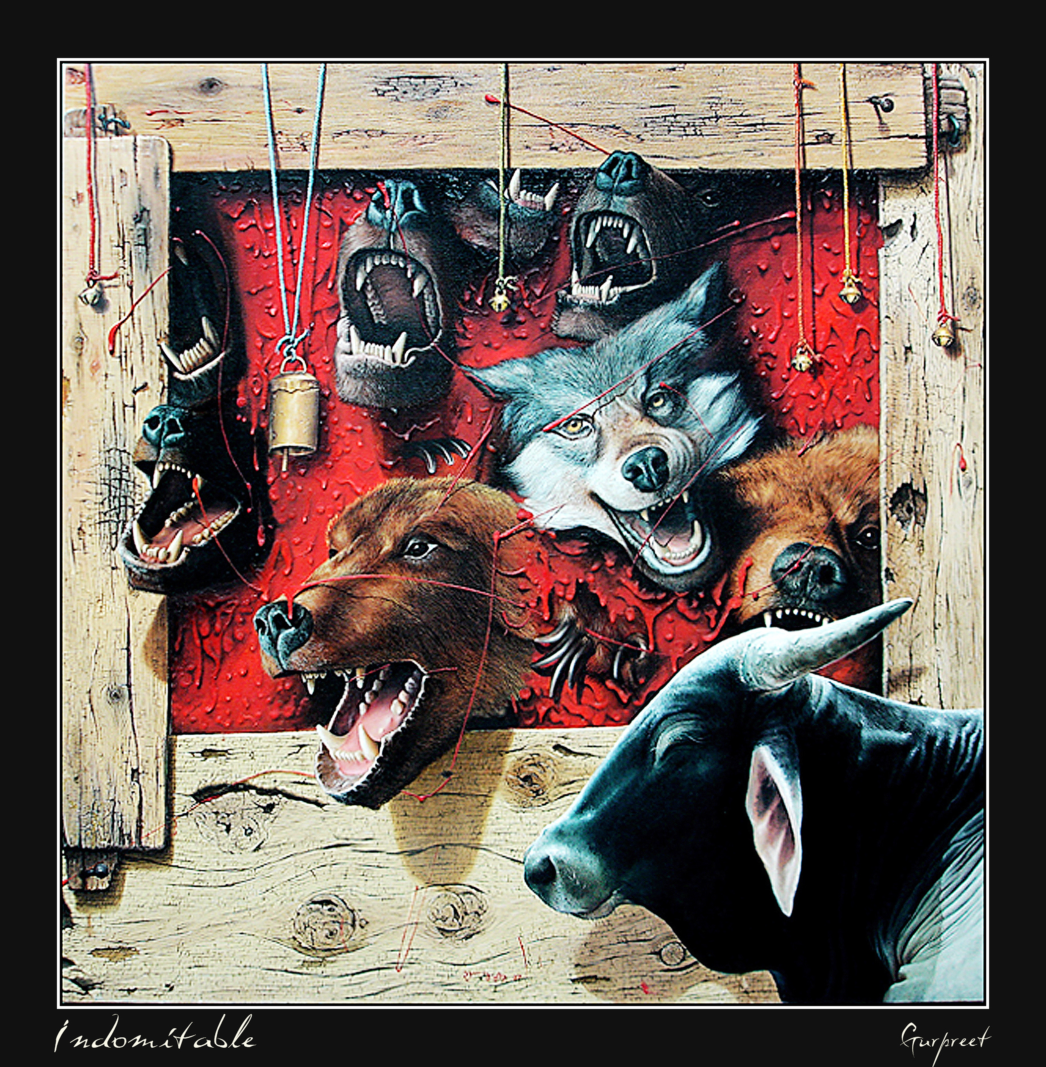 This is the state award winning painting by gurpreet artist bathinda. He won Lalit Kala Academy's Punjab State Award in 2015